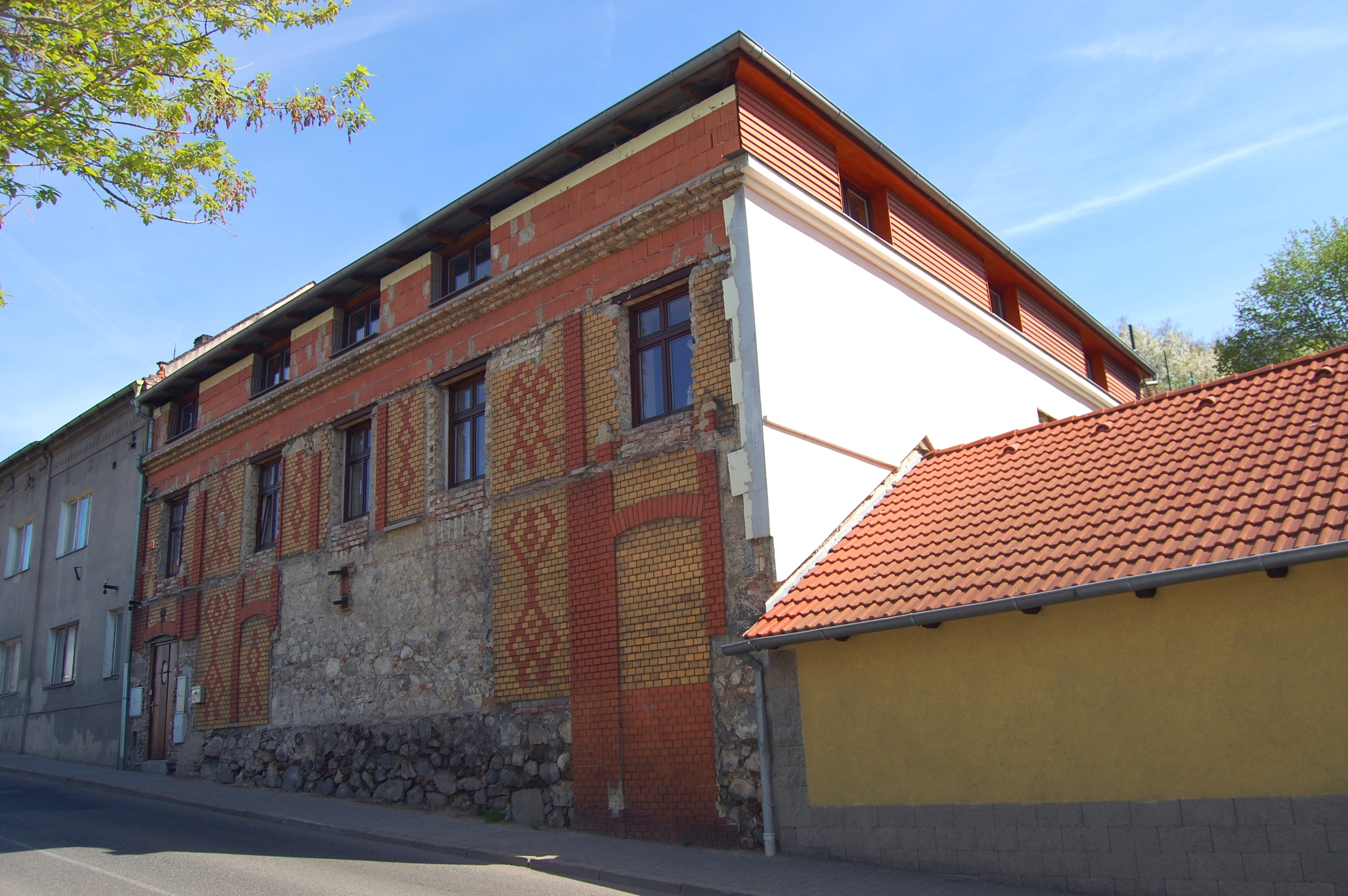 Synagogue in Bílina, Czech Republic. Česky: Synagoga v Bílině v Teplické ulici